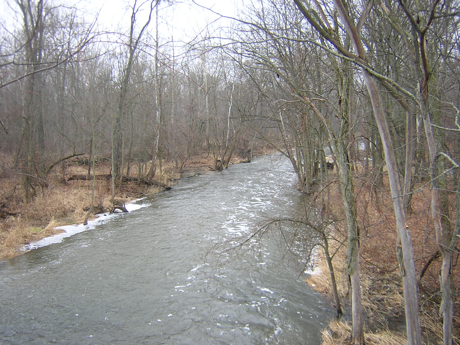 A view of the Thornapple just downstream from the Irving Dam new control structure in Irving, Michigan on the Thornapple River. This image is from the McCann road bridge. The new control structure is labeled S in the diagram at right.